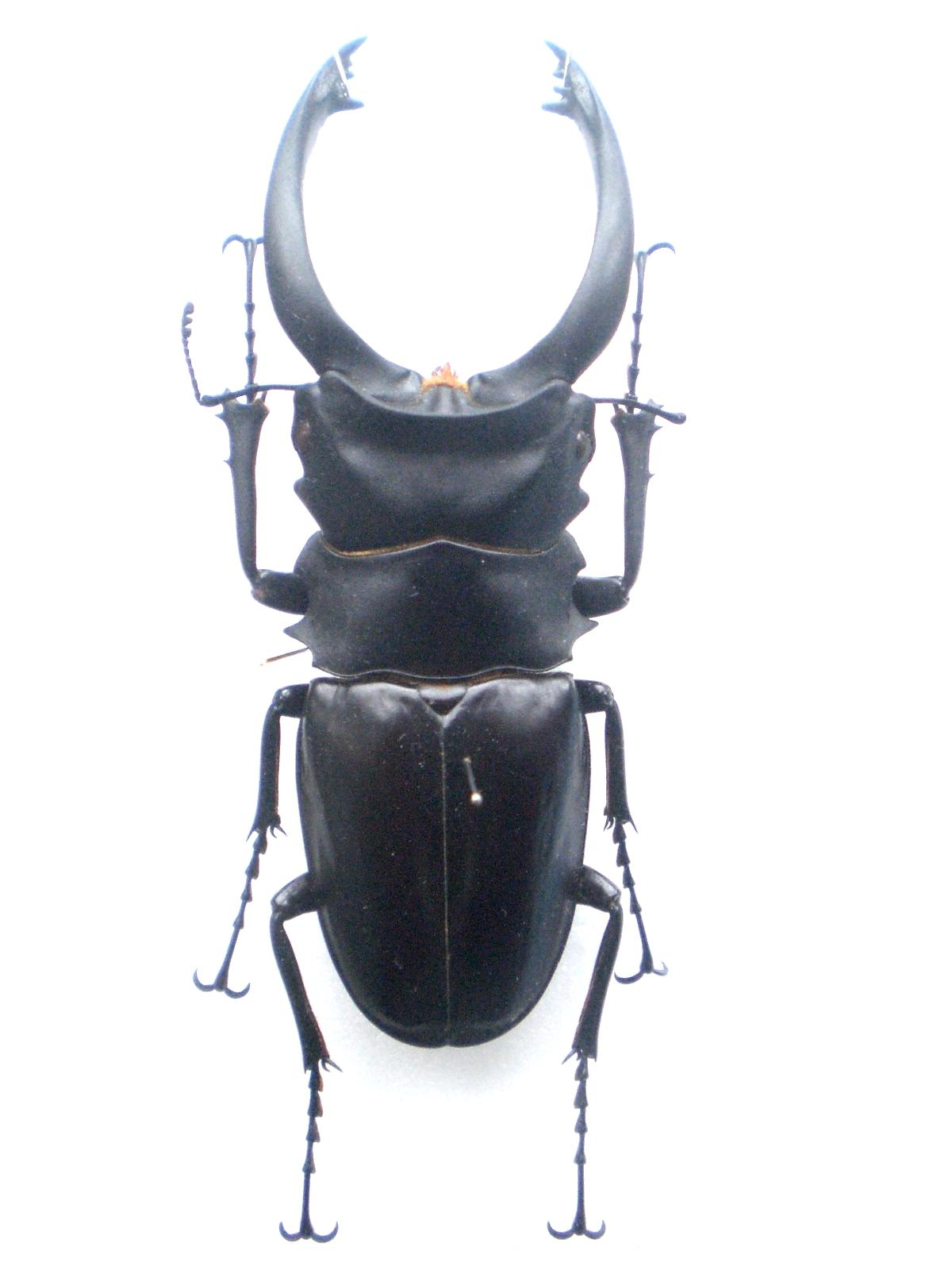 Odontolabis alces (Fabricius, 1775)